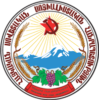 Coat of arms of Armenian SSR